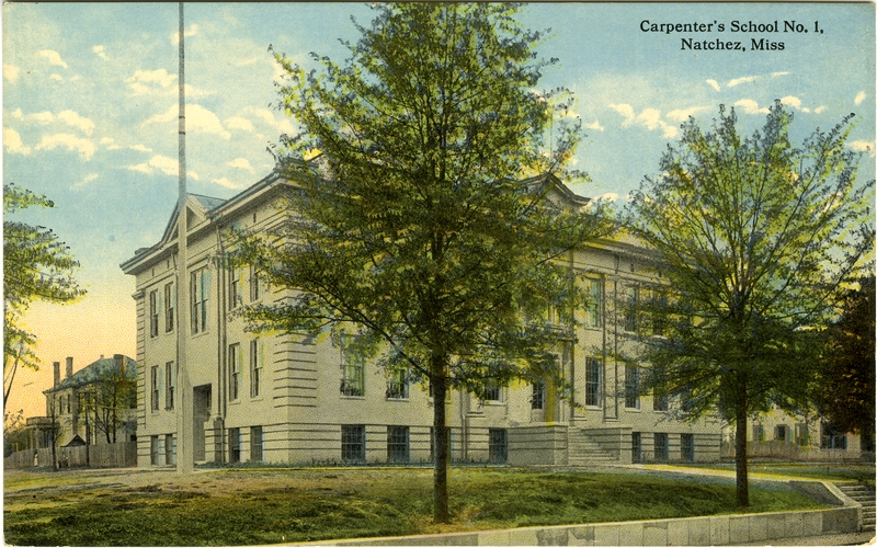 An old postcard of Carpenter School No. 1 in Natchez, Mississppi